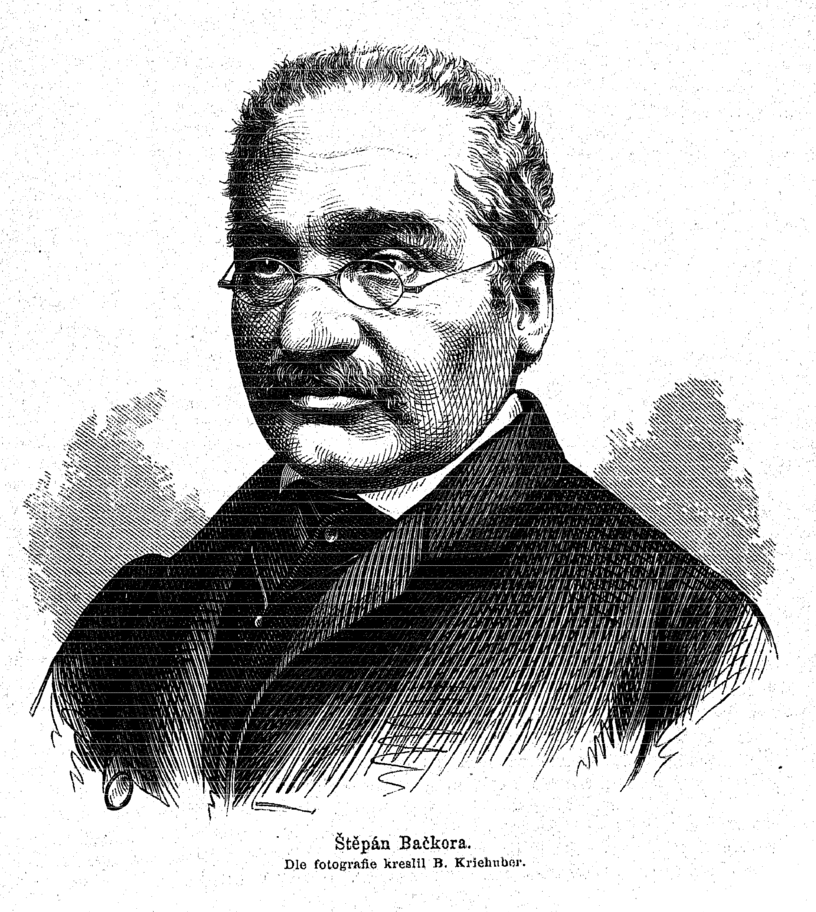 Portrait of Štěpán Bačkora (1813-1887), Czech teacher and author of school books